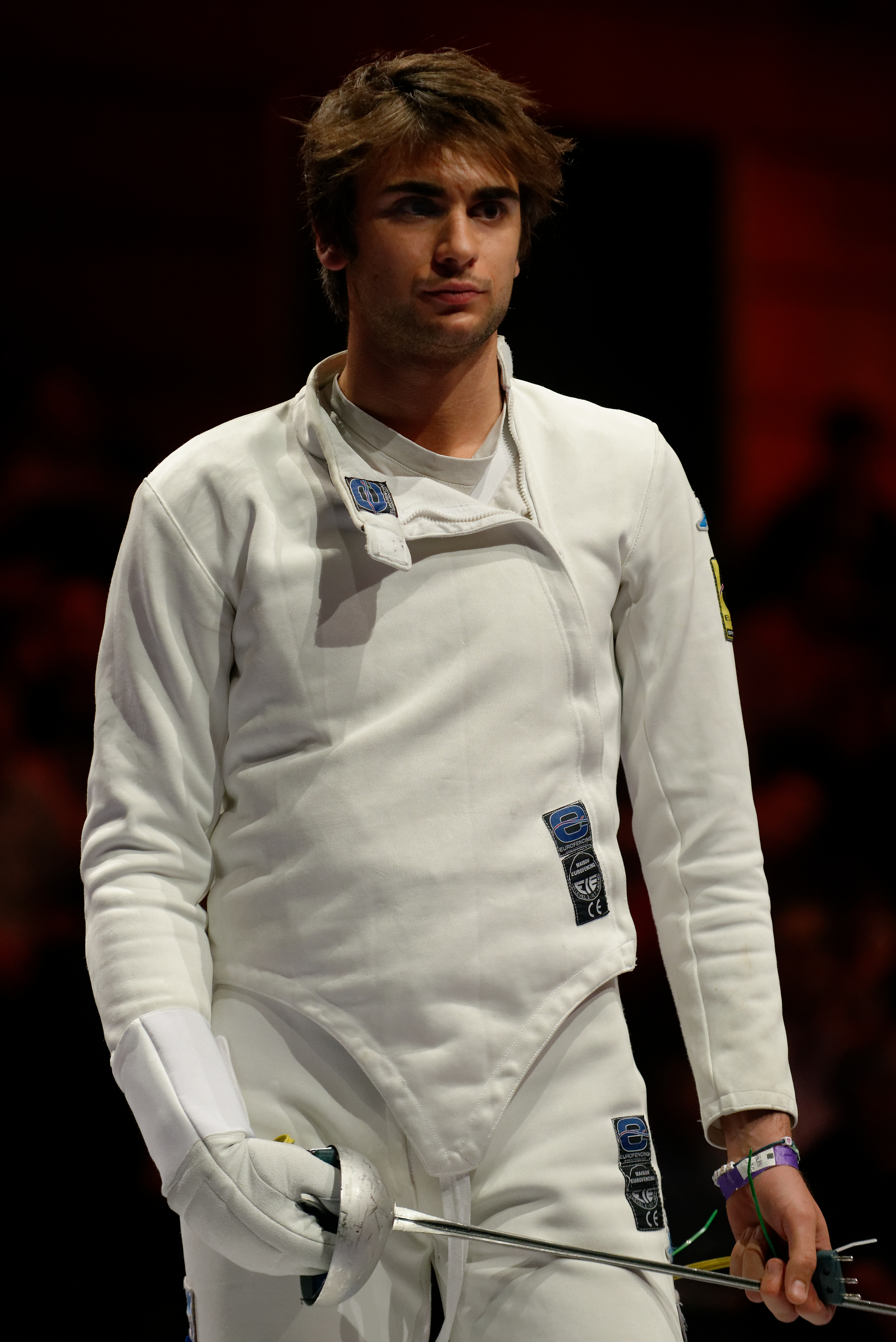 Italy's Enrico Garozzo waits for a new bodywire in the final of the Challenge Réseau Ferré de France–Trophée Monal 2013, a men's épée FIE World Cup competition.